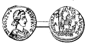 A gold coin of Avitus, in the British Museum, exhibits, on the obverse, the head of the Emperor wearing a diadem ornamented with pearls and surrounded by the legend D N AVITVS PERP AVG. The reverse has the legend VICTORIA AVGGG and depicts Avitus, in military dress, standing with his left foot planted on a prostrate captive, a cross in his right hand and Victory on a globe in his left. In the field A - R; in the exergue, COMOB. Mionet gives, from the cabinet of M. Gosselin, another solidus of this Emperor, which, as well as the one published by Banduri, has the reverse legend of VRBIS RONA (sic), the type being Roma Victrix seated. On other coins he is styled D N AVITHVS P F AVG and M MAECIL AVITVS (or AVITHVS) P F AVG. 738 woodcuts illustrating the work A Dictionary of Roman Coins, Republican and Imperial (1889). To identify a coin please look at the filename to identify a page number, and check the Dictionary on numiswiki